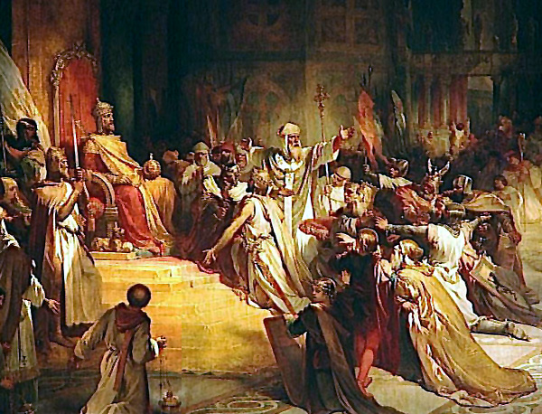 Baldwin of Flanders is crowned Latin Emperor of Constantinople